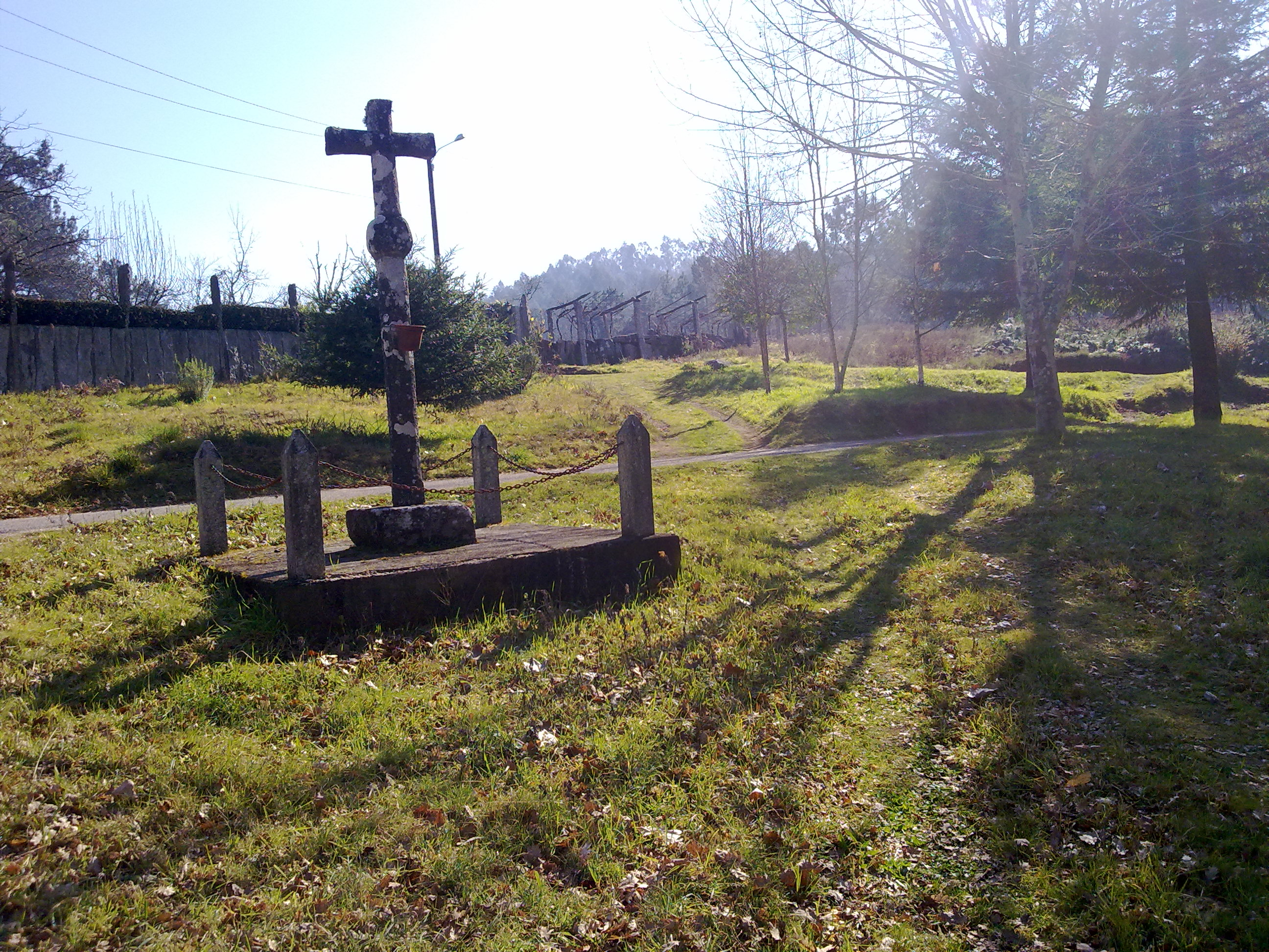 Stone Cross in the grove of As Cernadas, Lira (Salvaterra de Miño), Galicia, Spain.